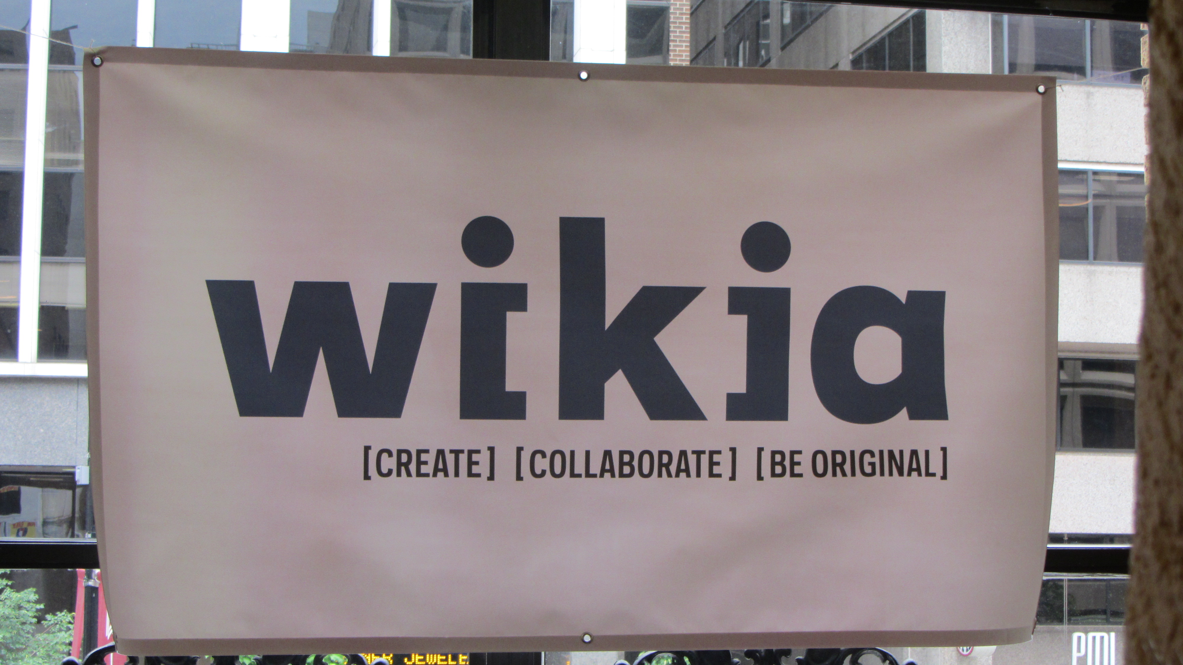 Wikia Party (Day 2), Wikimania 2012.